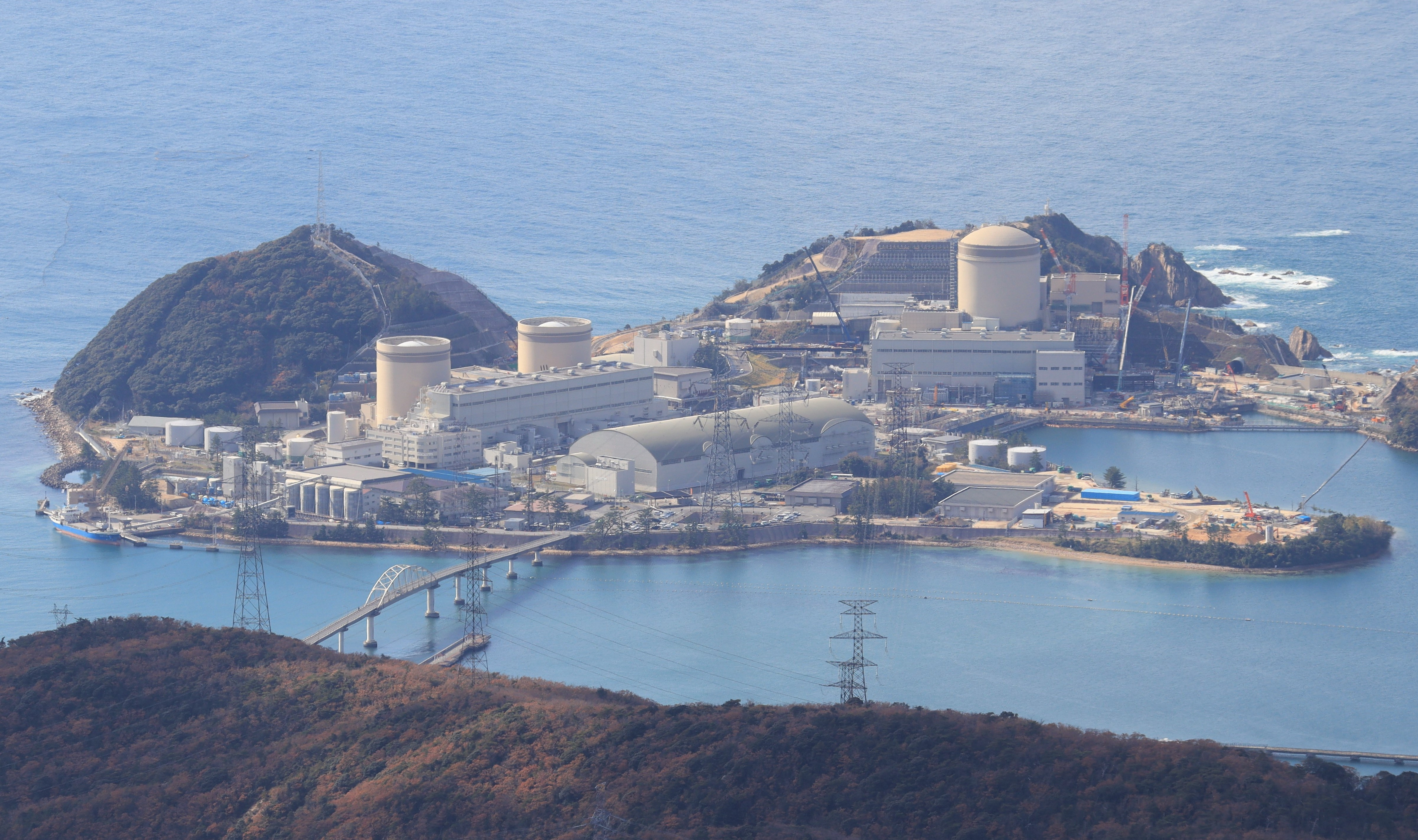 Mihama Nuclear Power Plant and Nyu Bridge seen from Mount Saiho in Mihama, Fukui Prefecture, Japan.